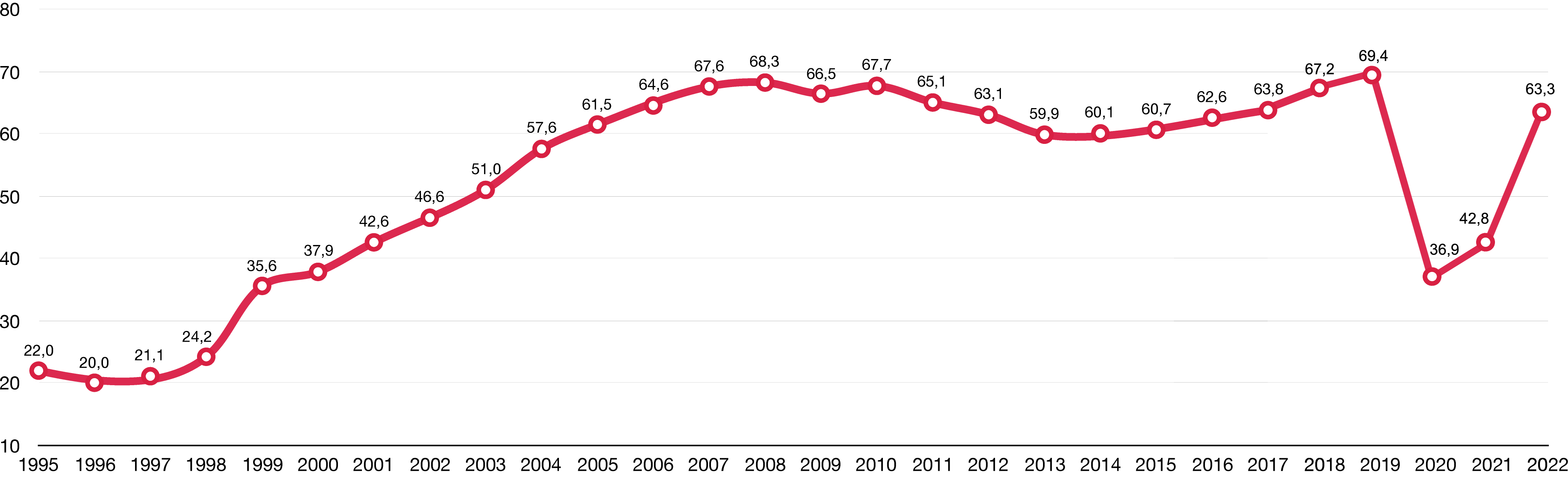 Plot of the number of travelers of Metrovalencia (in millions) per year.